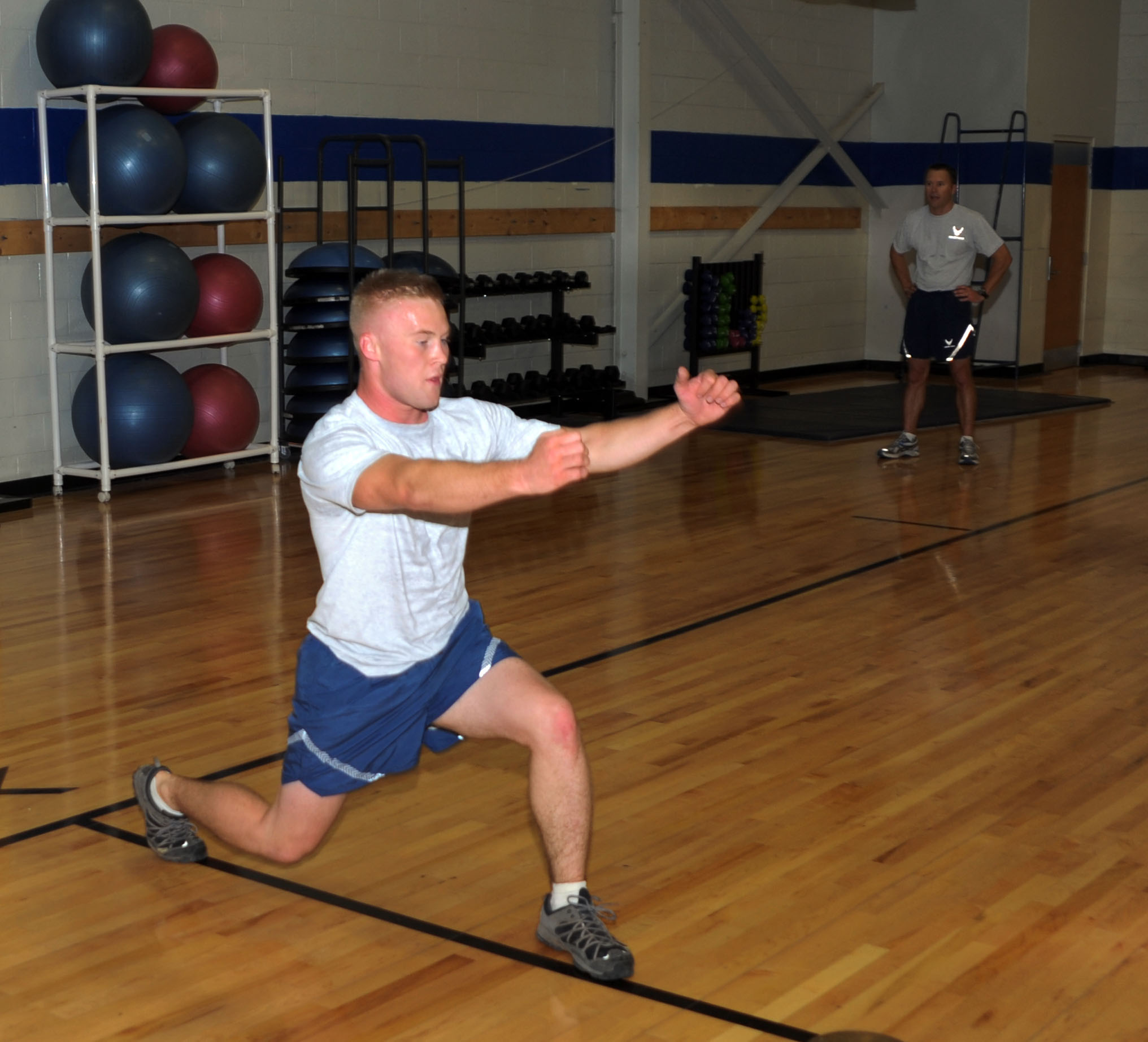 ALTUS AIR FORCE BASE, Okla. – Senior Airman Jesse Joseph, 97th Civil Engineer Squadron heating ventilation and air condition technician, performs a lunge at the base fitness center Oct. 21, 2011. Joseph is one of 10 physical training leaders in 97th CES. It is the responsibility of PTLs to teach their fellow Airmen what it takes to stay fit-to-fight by leading their unit’s PT in CES.